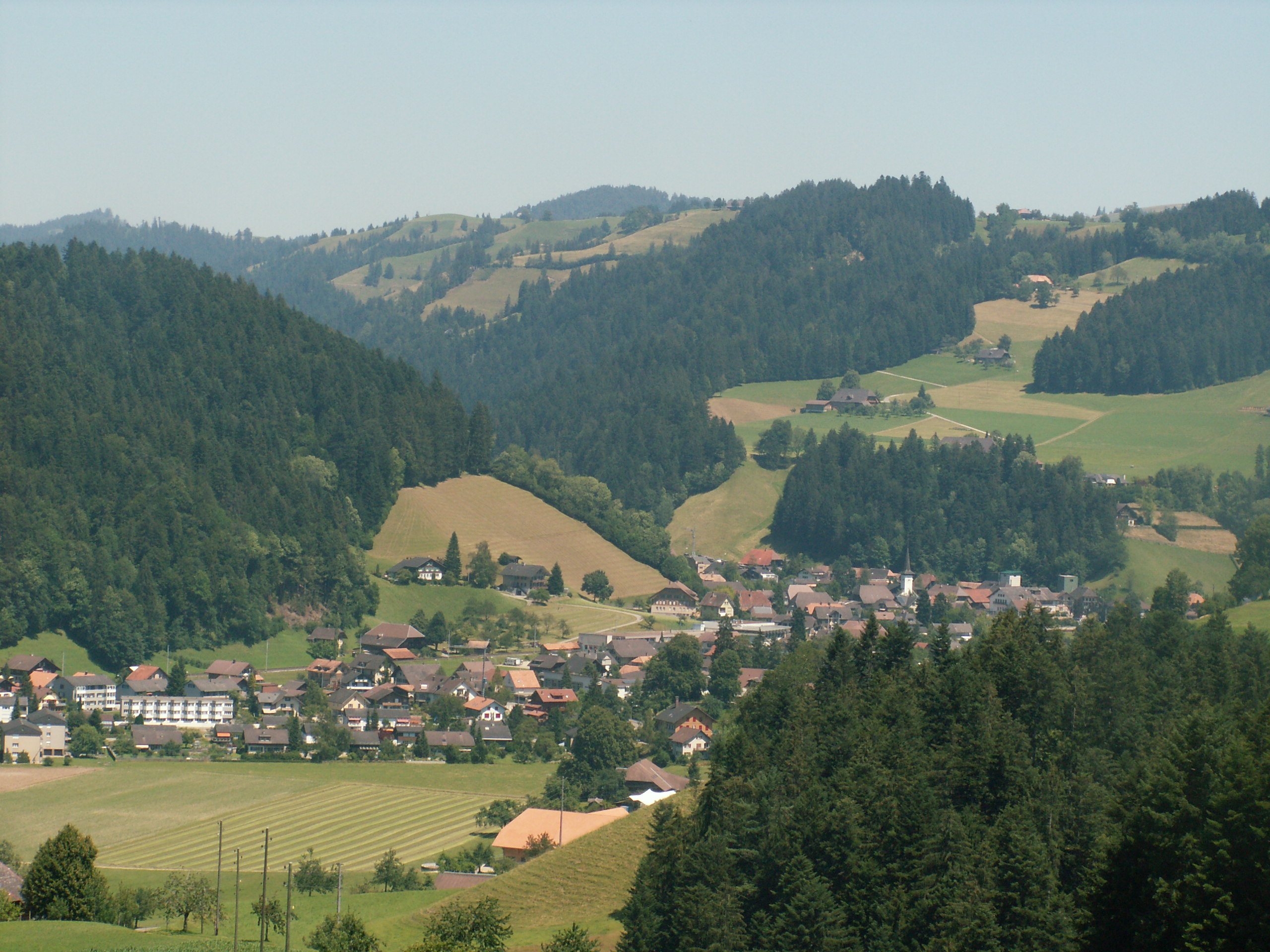 Trubschachen, a village in Switzerland, canton of Berne